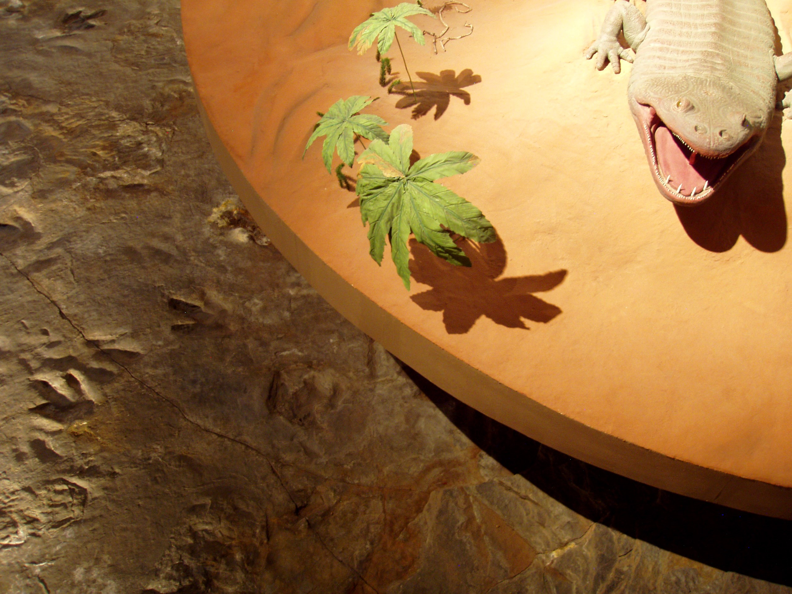 Dinosaur State Park and Arboretum, Rocky Hill, Connecticut, USA. Interior detail.